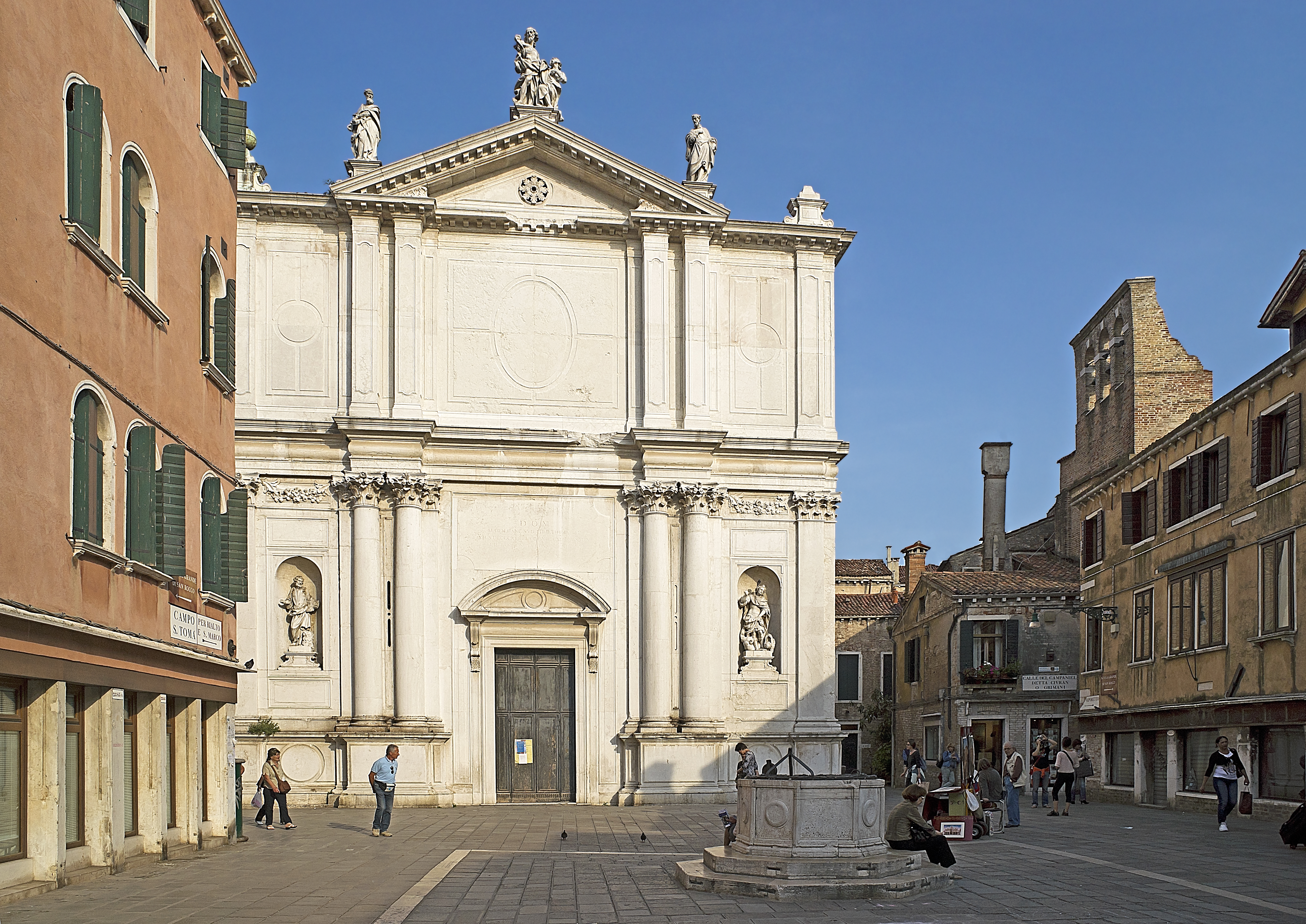 Church of San Tomà on the eponymous campo Venice.